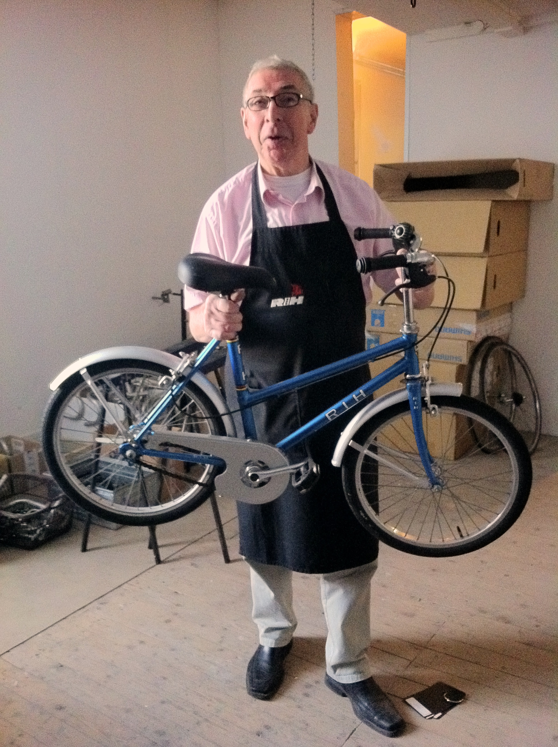 2nd generation RIH frame builder showing a girls bike he once made. Fhoto taken at the 2nd floor of the workshop at Westerstraat 150, Amsterdam.